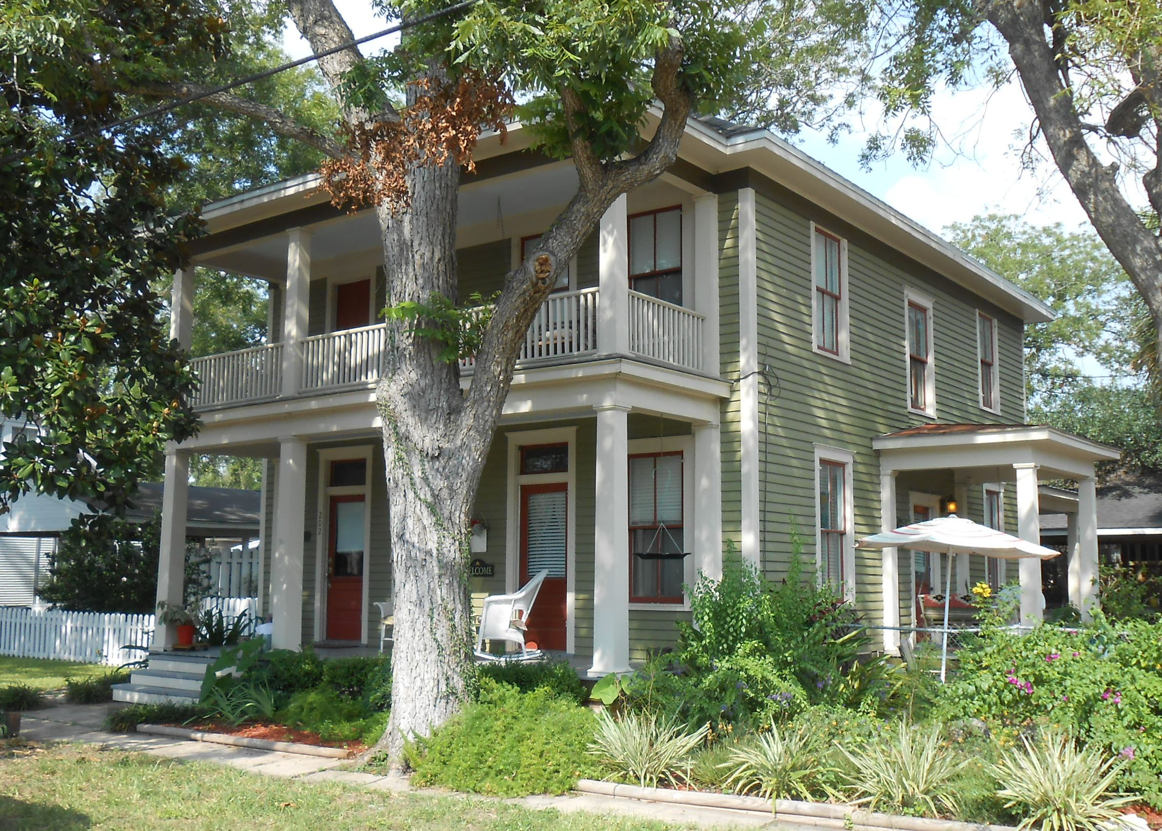 Tasin House, 202 N. Wheeler Street, Victoria, Texas